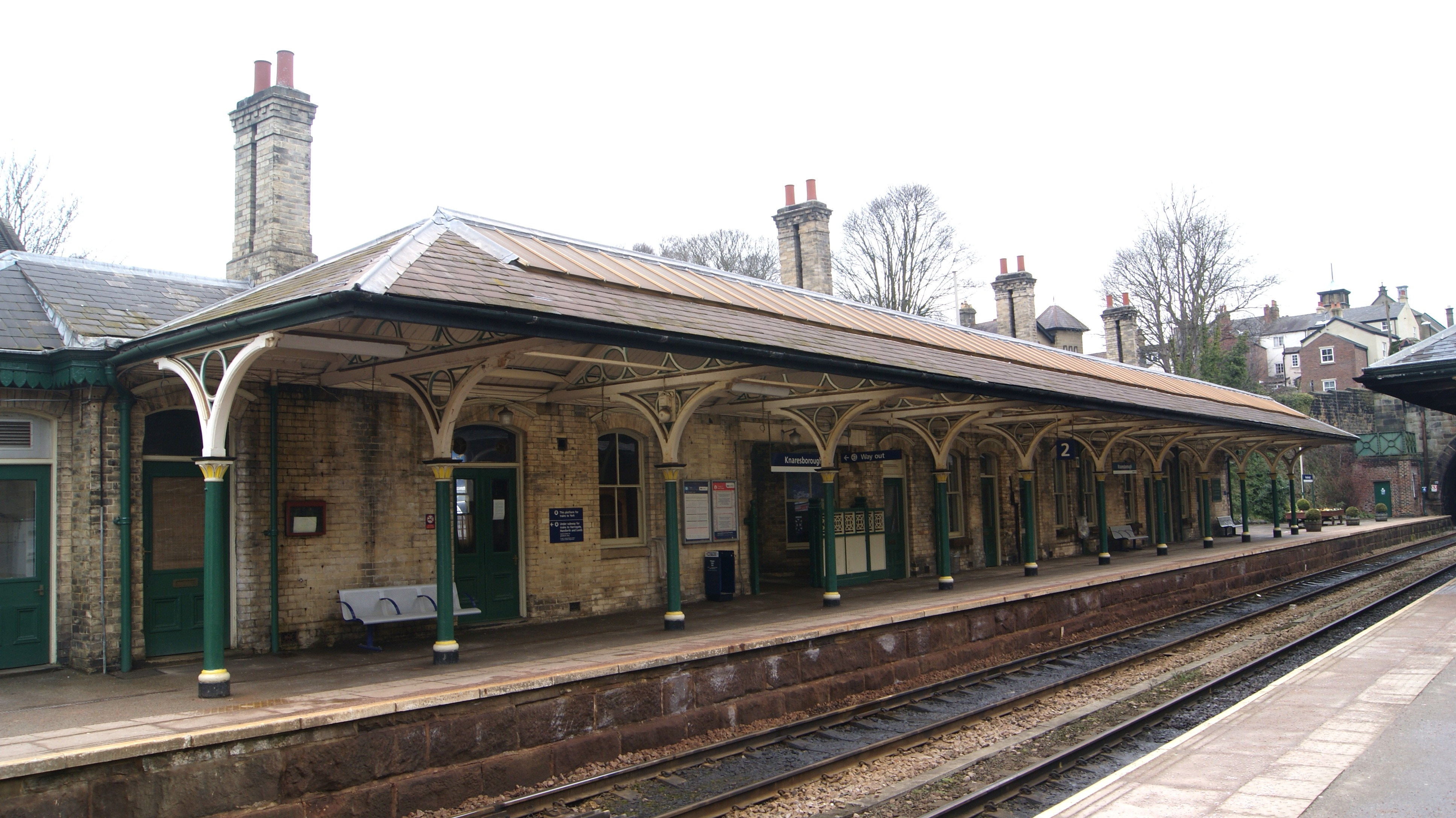 Knaresborough railway station, Knaresborough, North Yorkshire. Taken on the afternoon of Tuesday the 19th of March 2013.